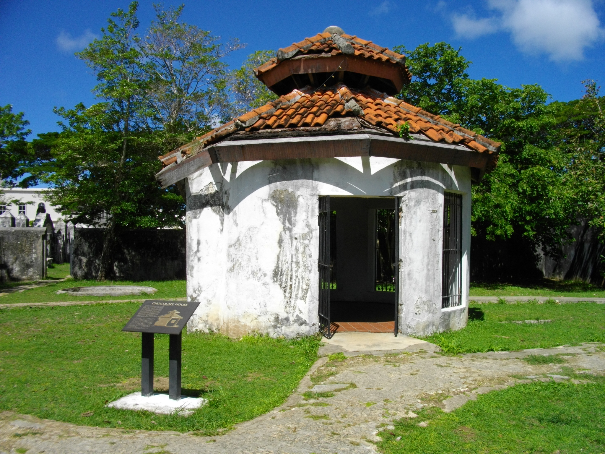 Chocolate House in Hagatna